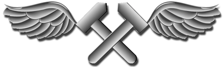 US Navy Aviation Structural Mechanic (AM). Winged crossed mauls; heads of mauls up.